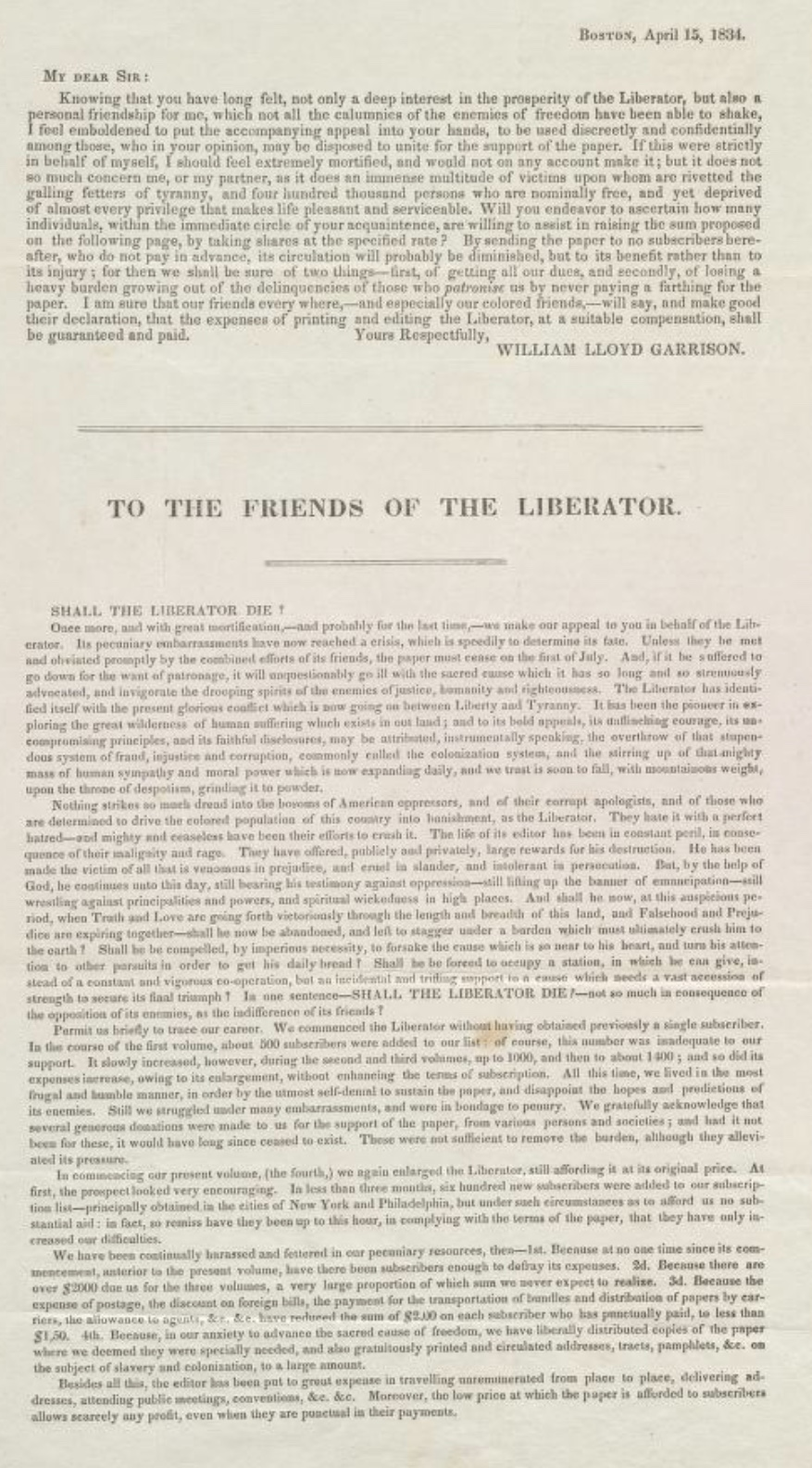 William Garrison tells the history of his newspaper The Liberator and asks for donations or help getting more subscriptions